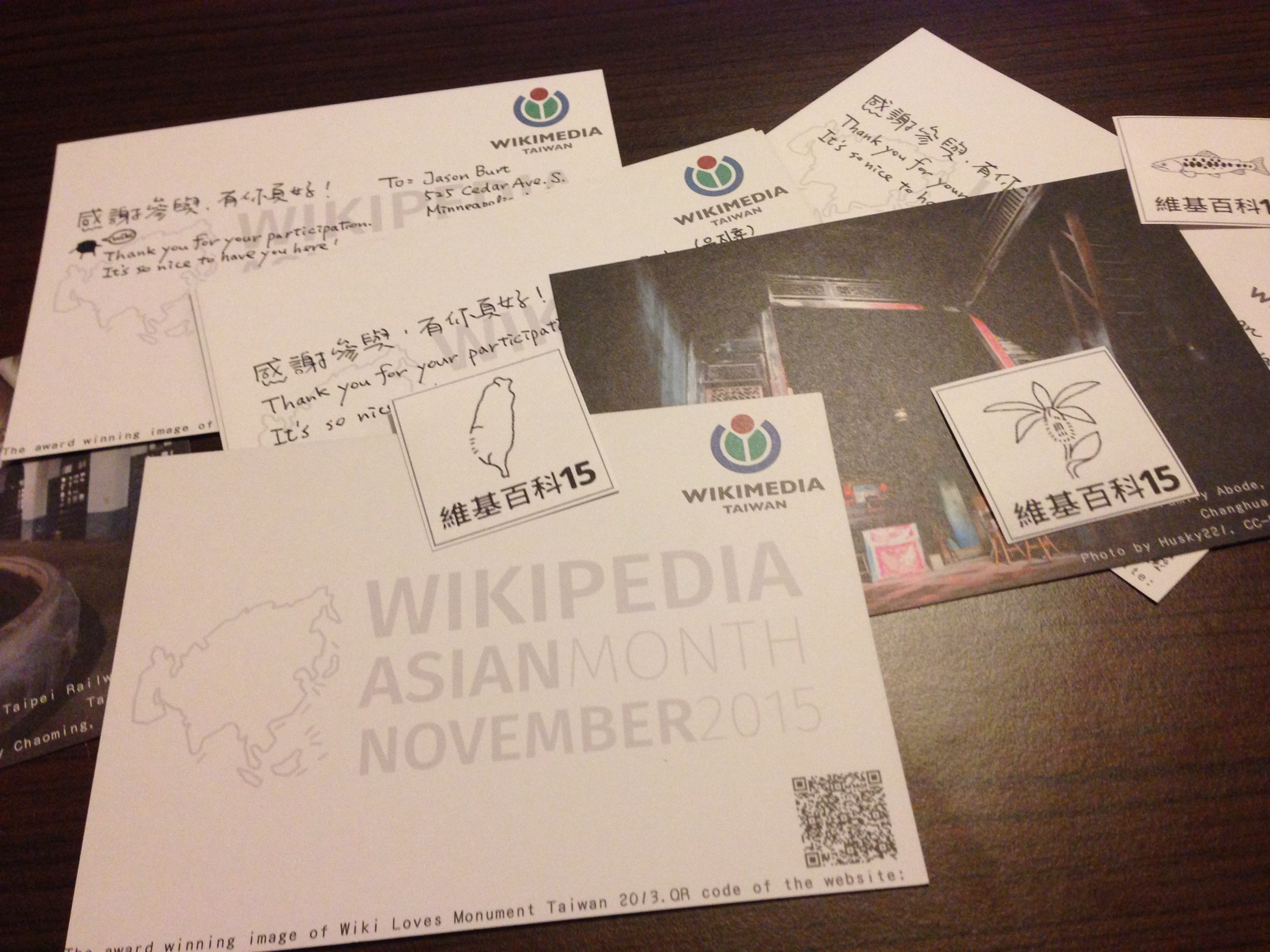 Postcards written by volunteer @Taiwania Justo:. These will be sent to global participants of Wikimedia Asian Month 2015.